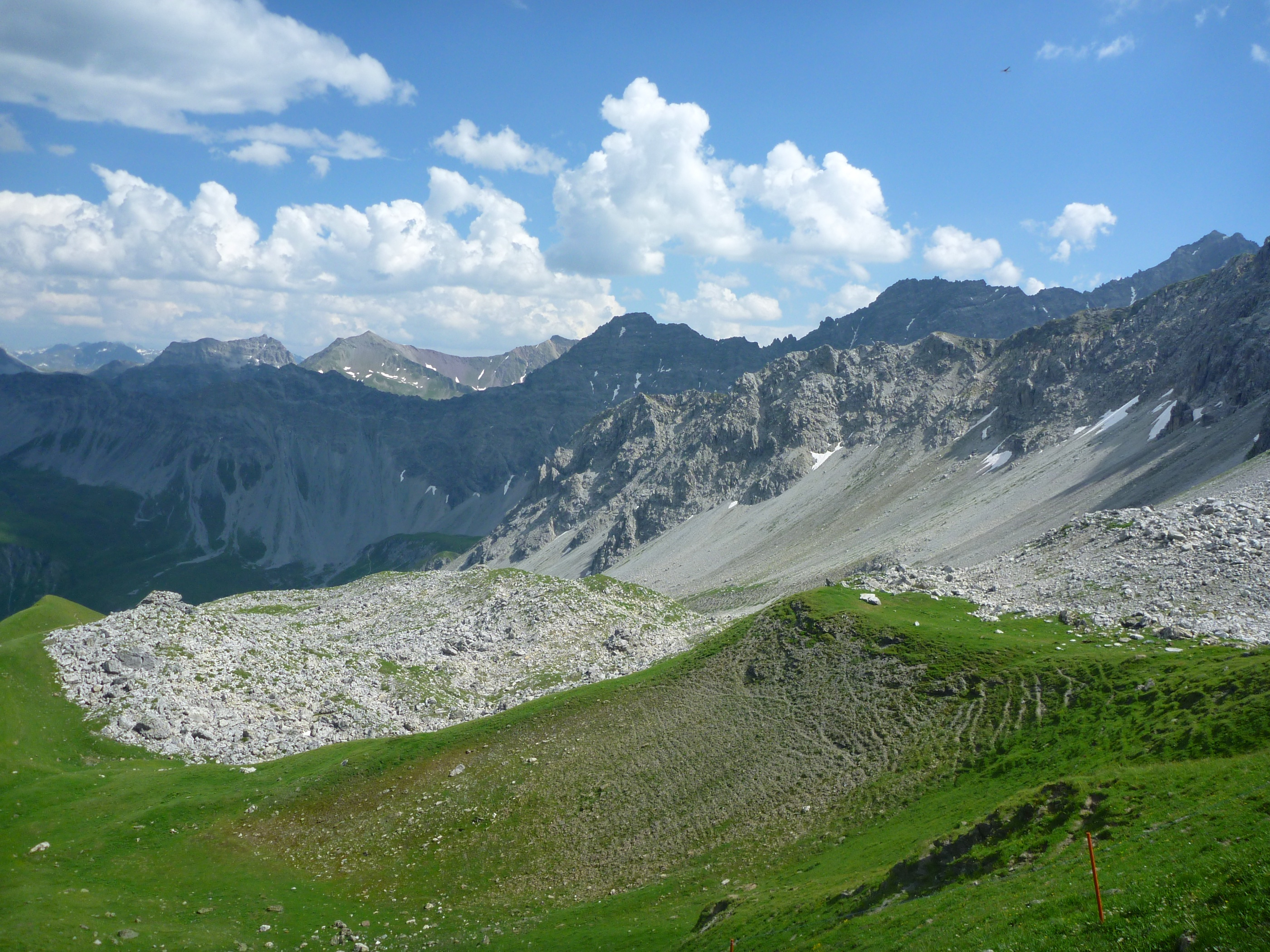 North-Eastern face with slide rocks, Arosa/Switzerland